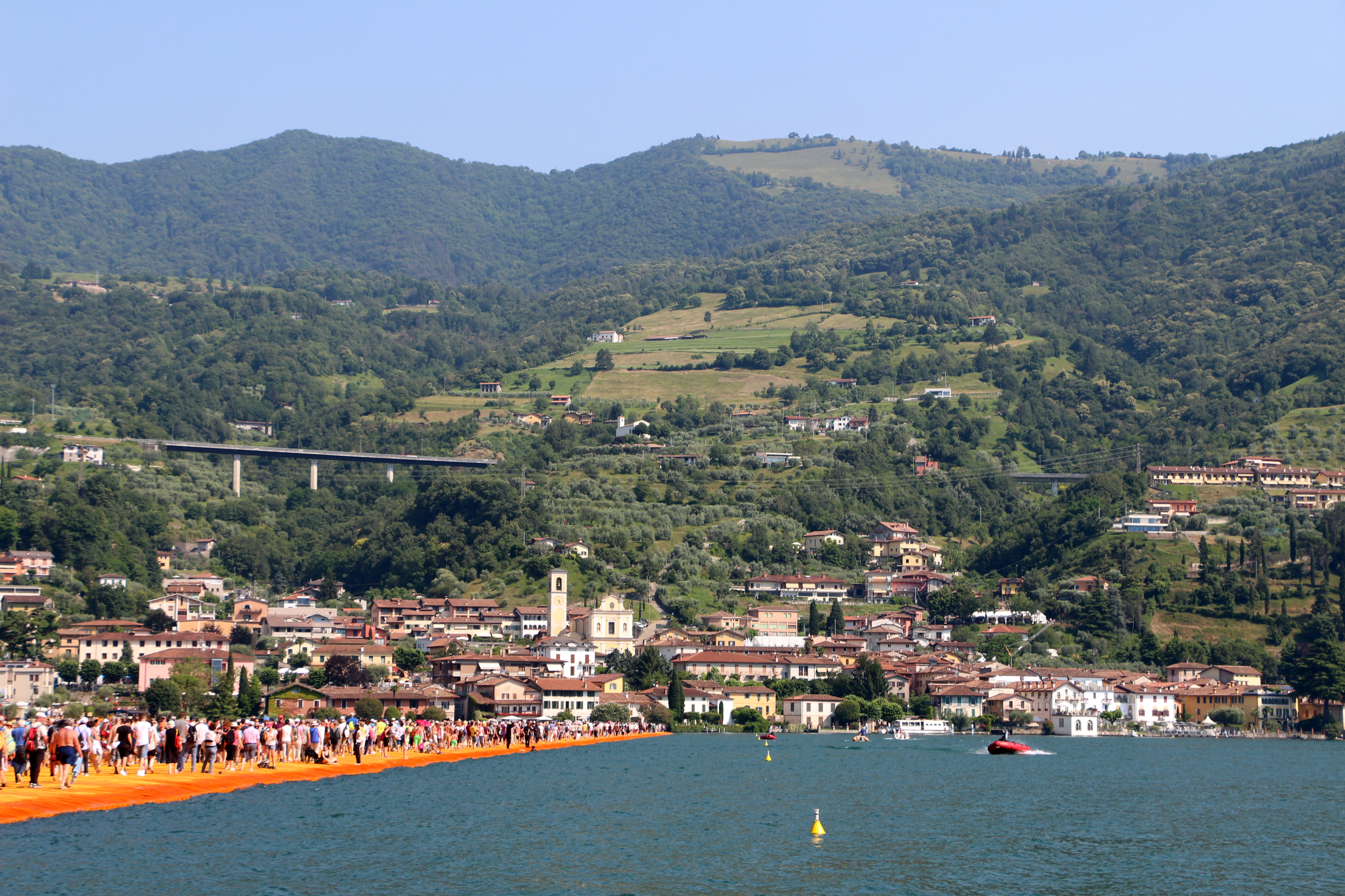 The Floating Piers